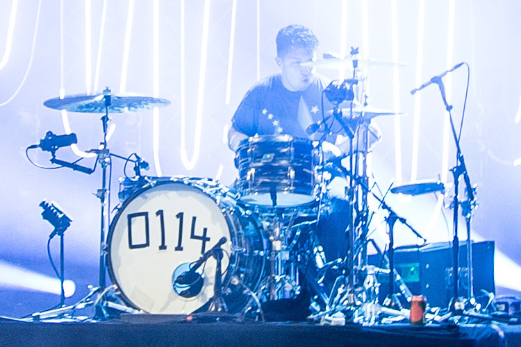 Arctic Monkeys drummer Matt Helders performing at Roskilde Festival 2014 in Denmark.